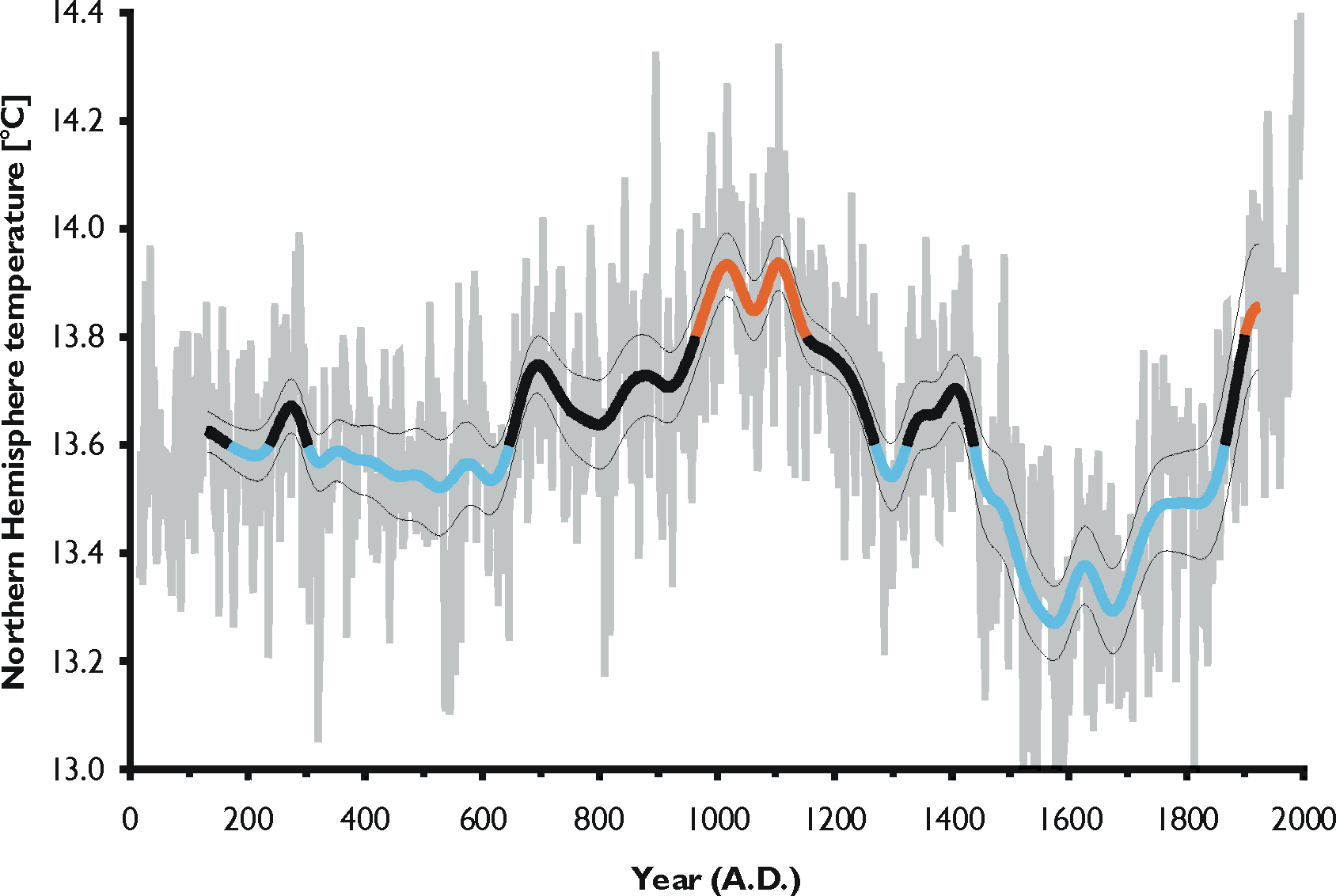 Average temperature of the Northern Hemisphere during the past 2000 years. The grey lines are the annual reconstructed estimates. The bold curve is the low frequency component (estimable between 133 and 1925). Colours indicate especially cold and warm periods. (Cold: Migration Period and Little Ice Age; warm: Medieval Warm Period and the Present.) The thin lines are the 95% confidence intervals (uncertainty due to the variance among the different proxies used).